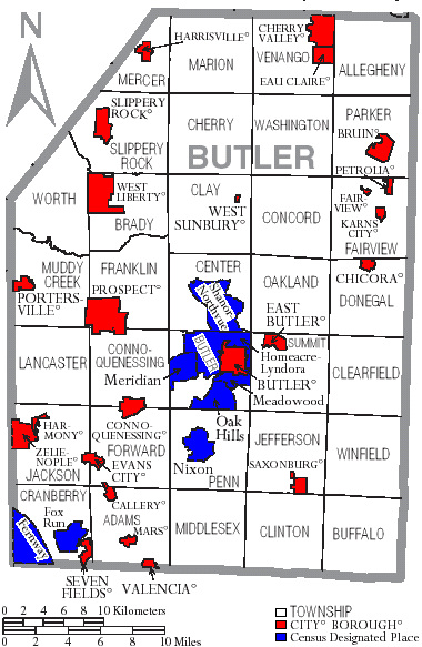 Map of Butler County, Pennsylvania, United States with township and municipal boundaries is taken from US Census website [1] and modified by User:Ruhrfisch in April 2006. My modifications licensed under the GNU Free Documentation License. Source: US Census website [2]